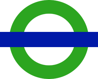 London Trams roundel for use at low resolutions